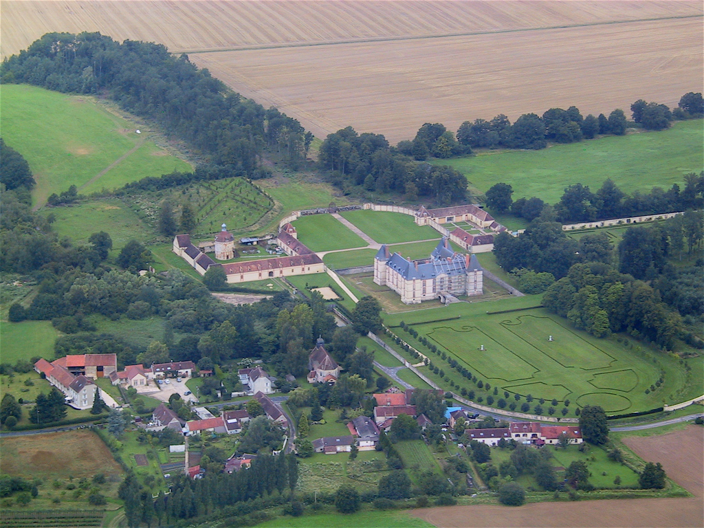 Castle of Reveillon, view from the sky